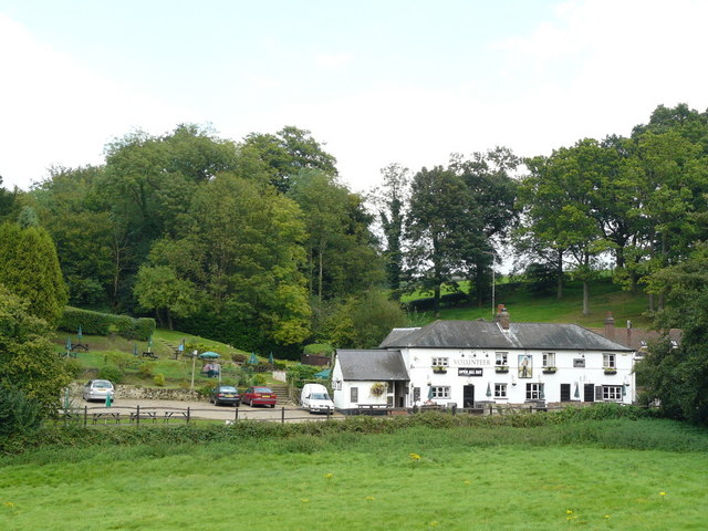 The Volunteer, Sutton Abinger Lovely old country pub, which I have visited on several occasions.